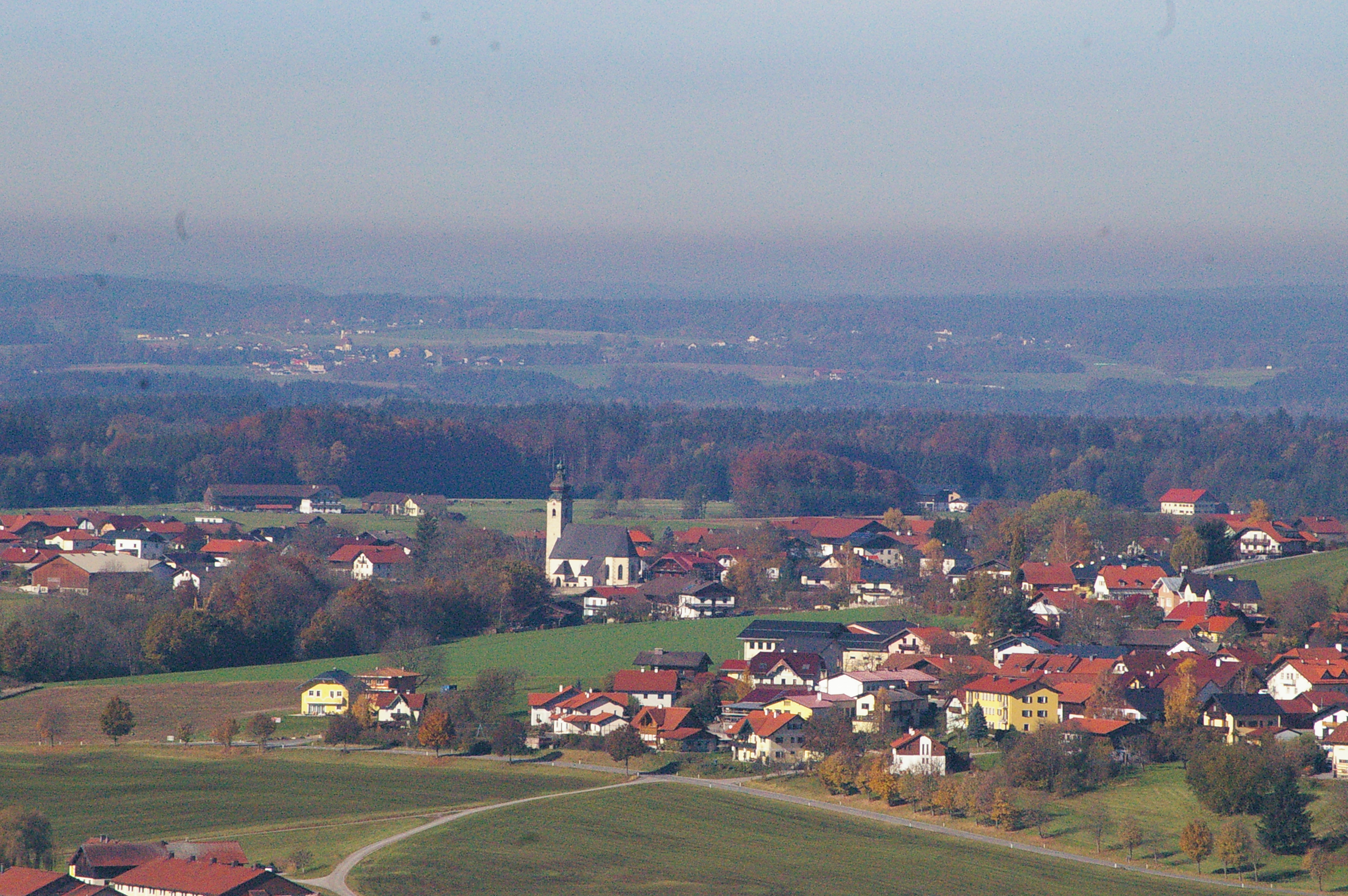 Dorfbeuern and Michaelbeuern Salzburg Austria